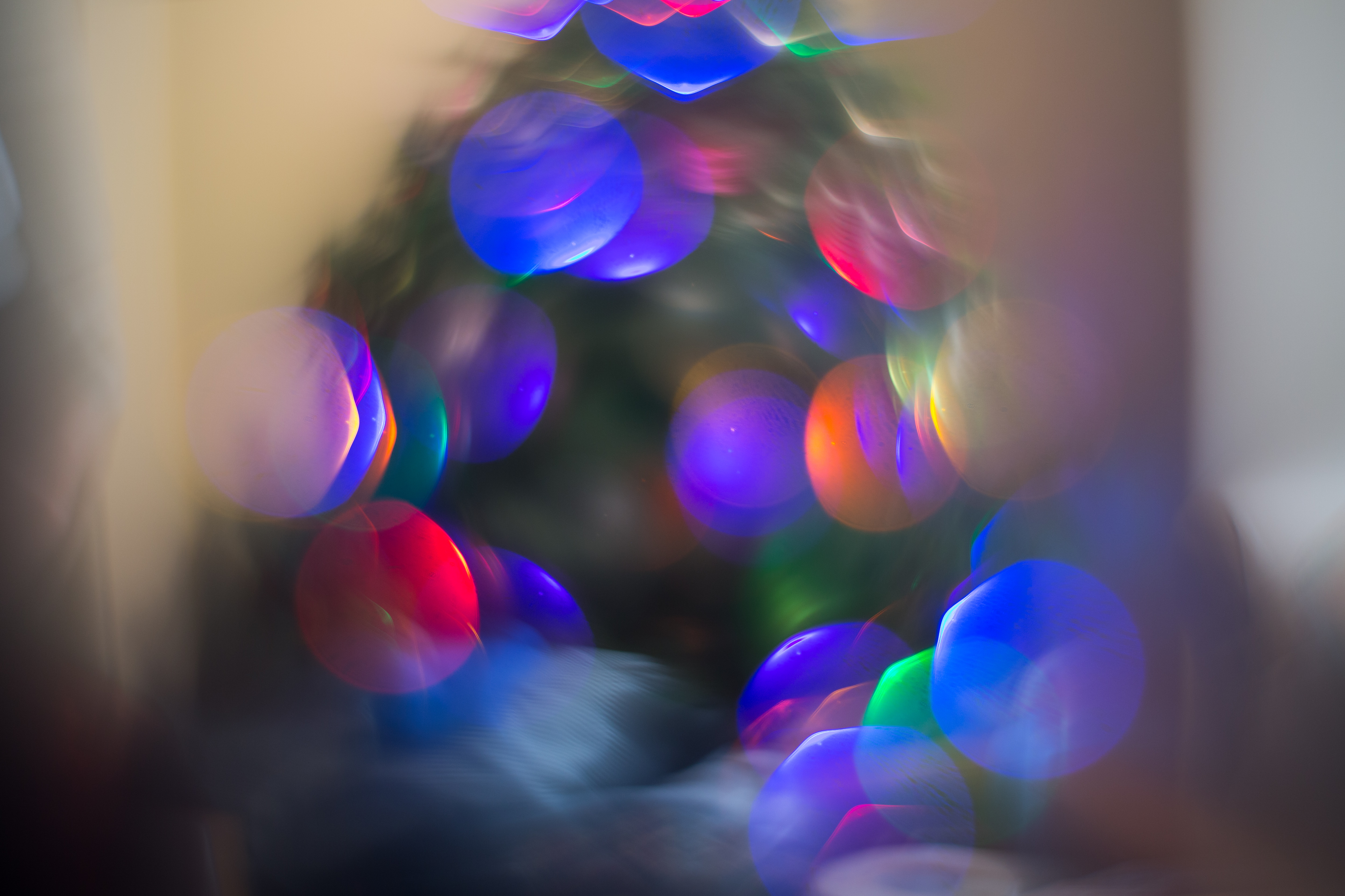 Christmas Tree